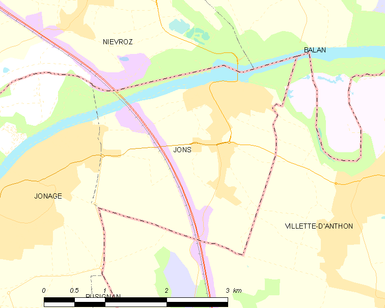 Map of French municipality